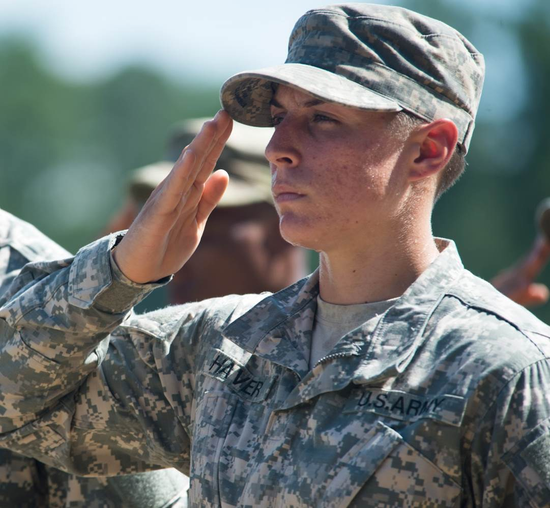 1st Lt. Shaye Haver and U.S. Army Ranger School Class 08-15 render a salute during their graduation at Fort Benning, GA, Aug. 21, 2015. Haver and class member Cpt. Kristen Griest became the first female graduates of the school.